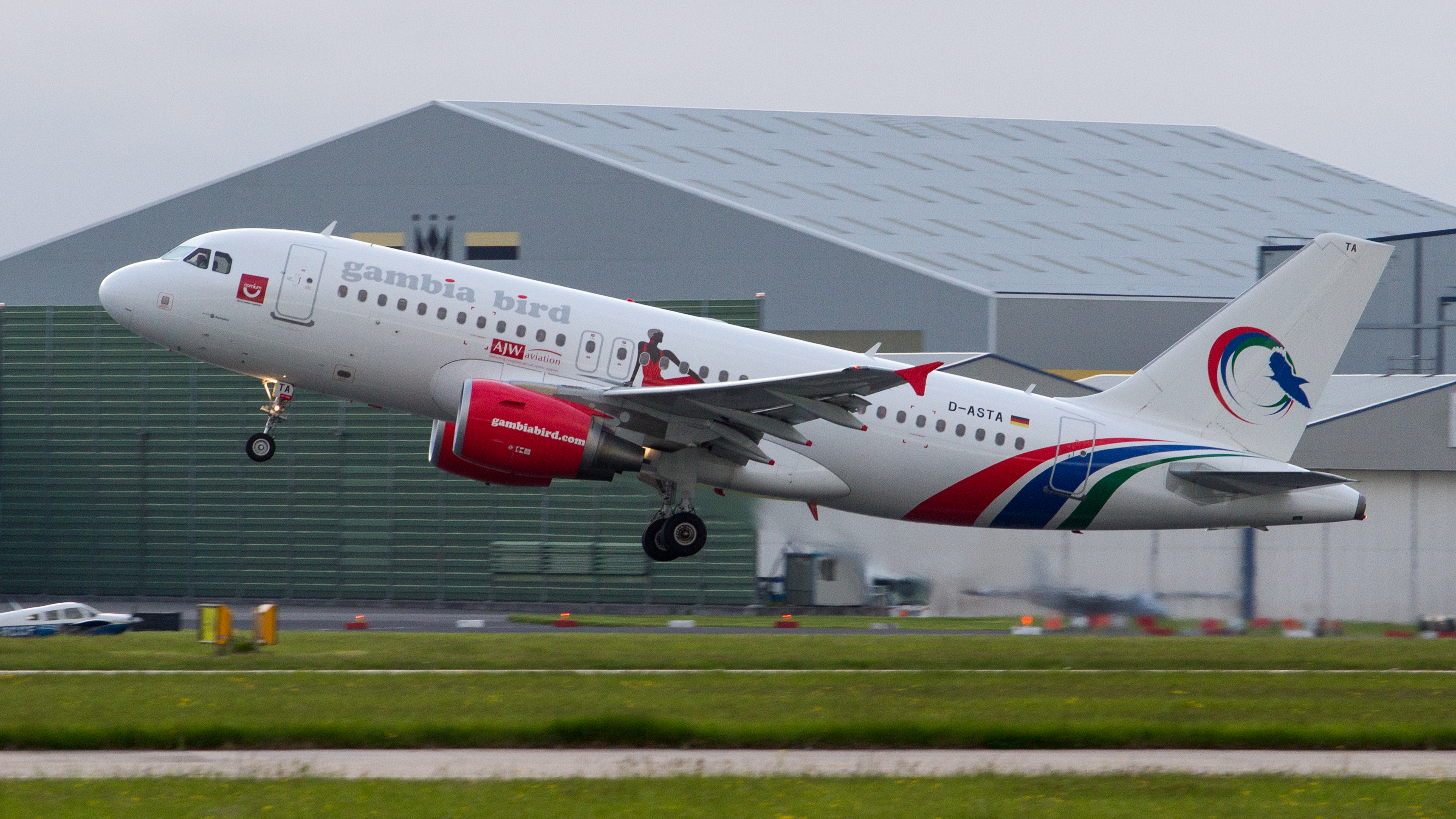 An evening at Manchester 01.06.13.